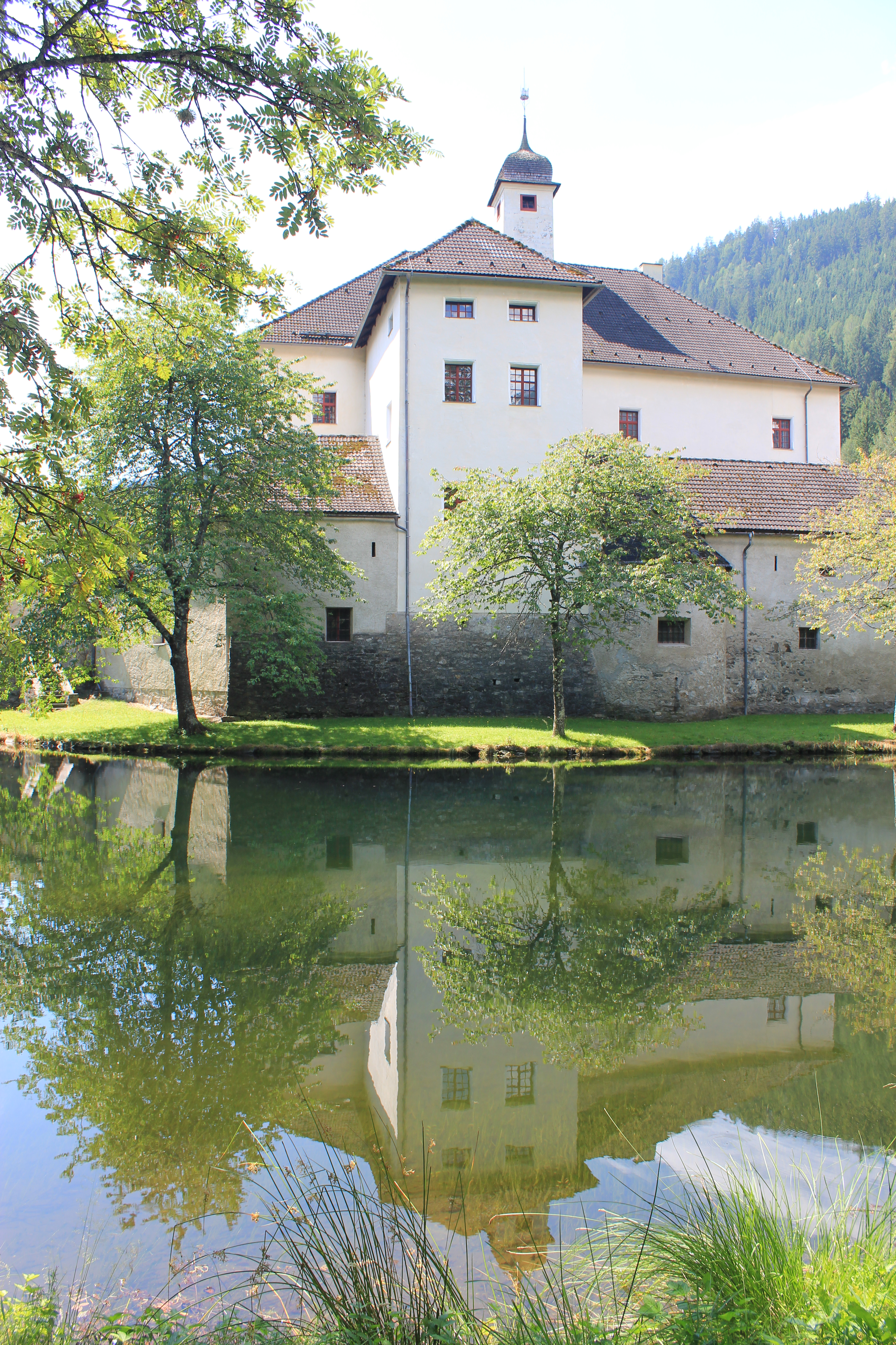 Dornbach castle in the community Malta